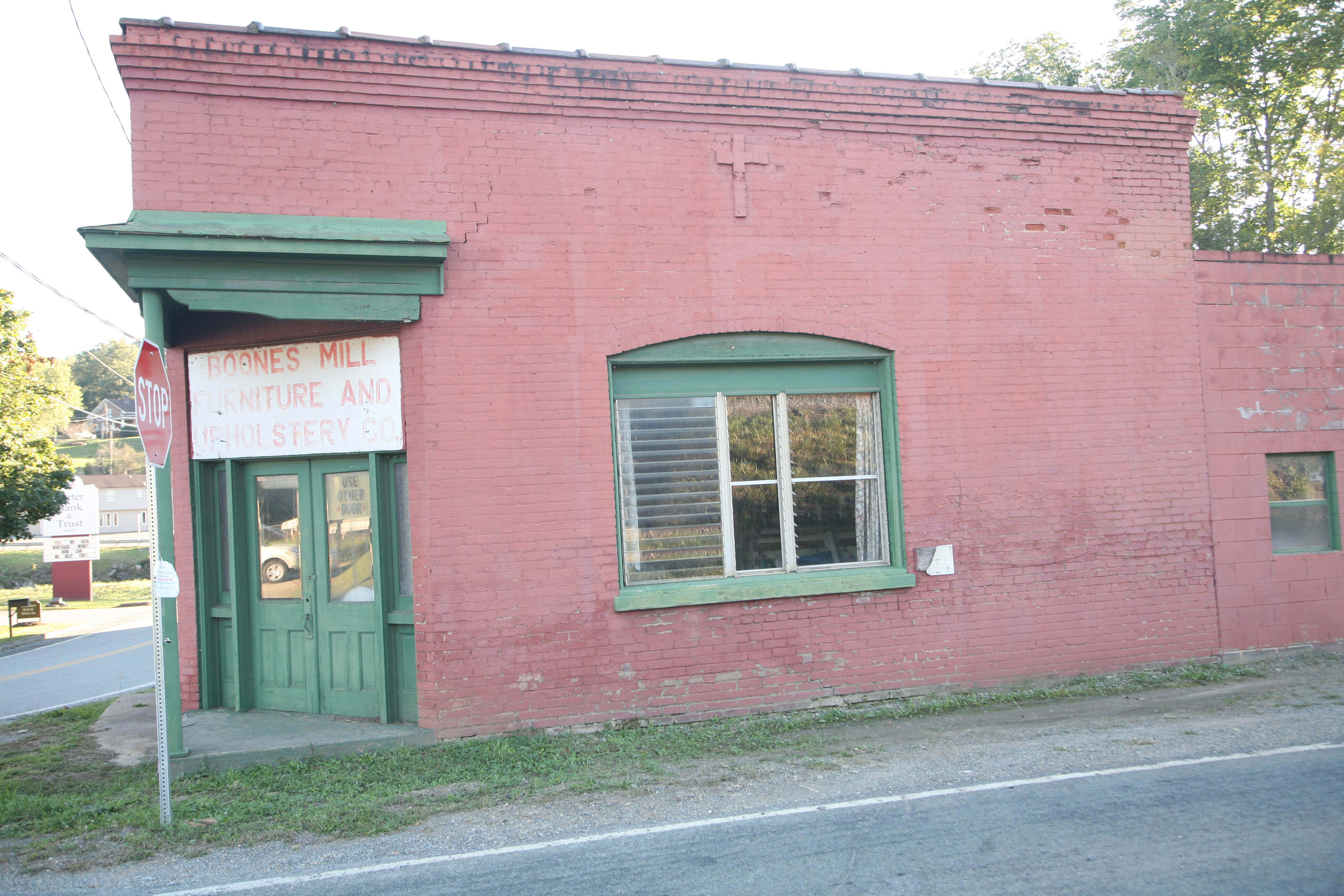 A commercial building at the intersection of Easy and Church Hill Streets in Boones Mill, Virginia, United States. Built in 1912 as a bank, it is part of the Boones Mill Historic District, a historic district that is listed on the National Register of Historic Places.